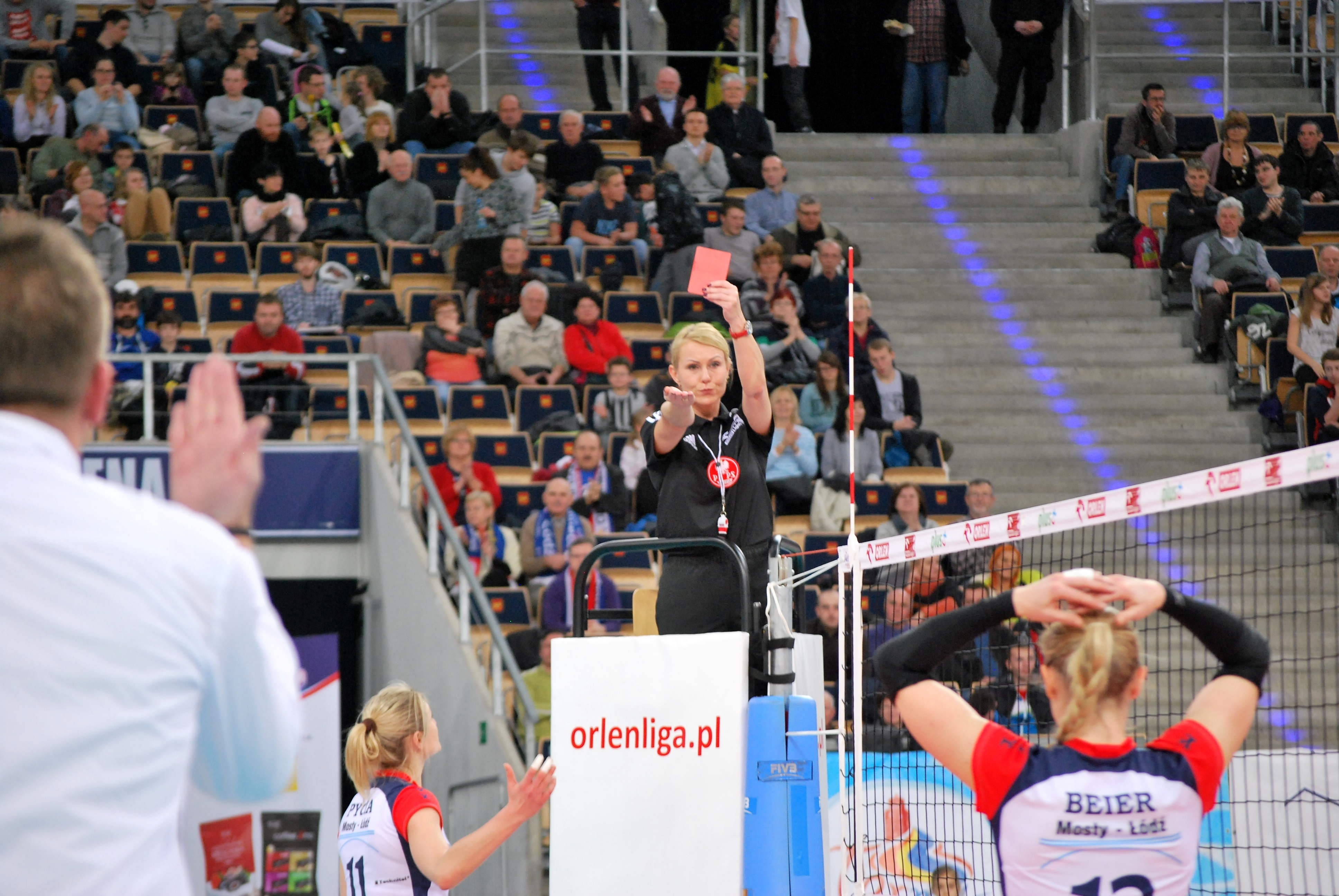 Official volleyball signals - red card